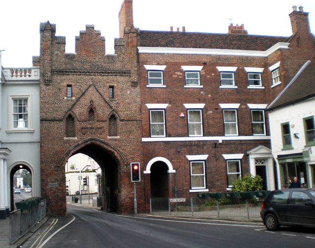 North Bar Within, Beverley, East Riding of Yorkshire, England.The North Bar is the sole surviving bar, or gate, of the four that were built in the Middle Ages to control the main route entries into Beverley. The area of the town on this side of the bar is known as "within", the other side is known as "without", i.e. outside the gate. The present gate was rebuilt in 1409 from bricks that had been made locally in Beverley.